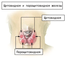 Thyroid and parathyroid glands, description in Russian